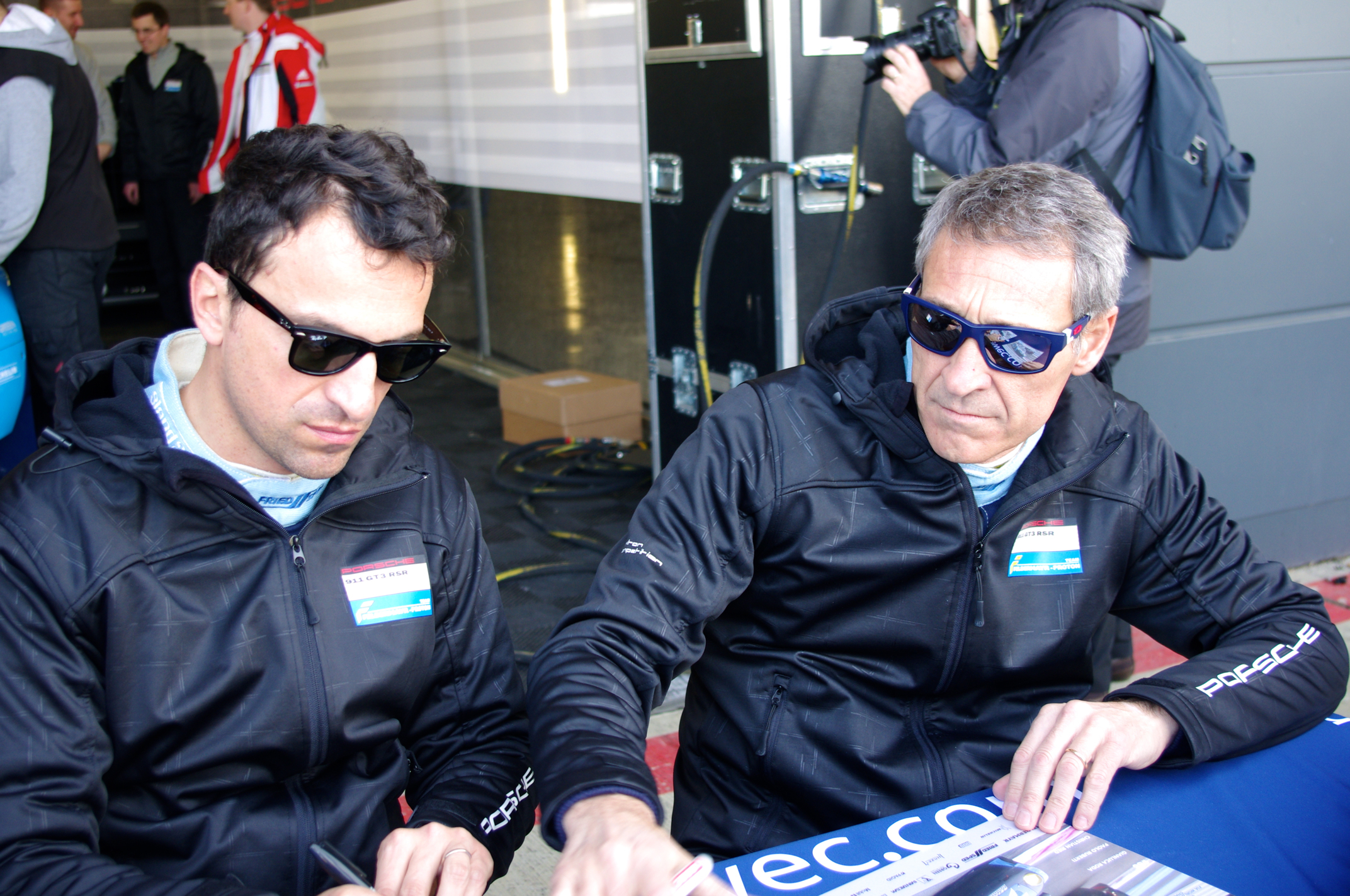 Silverstone 6 Hours 2013 FIA World Endurance Championship (WEC)